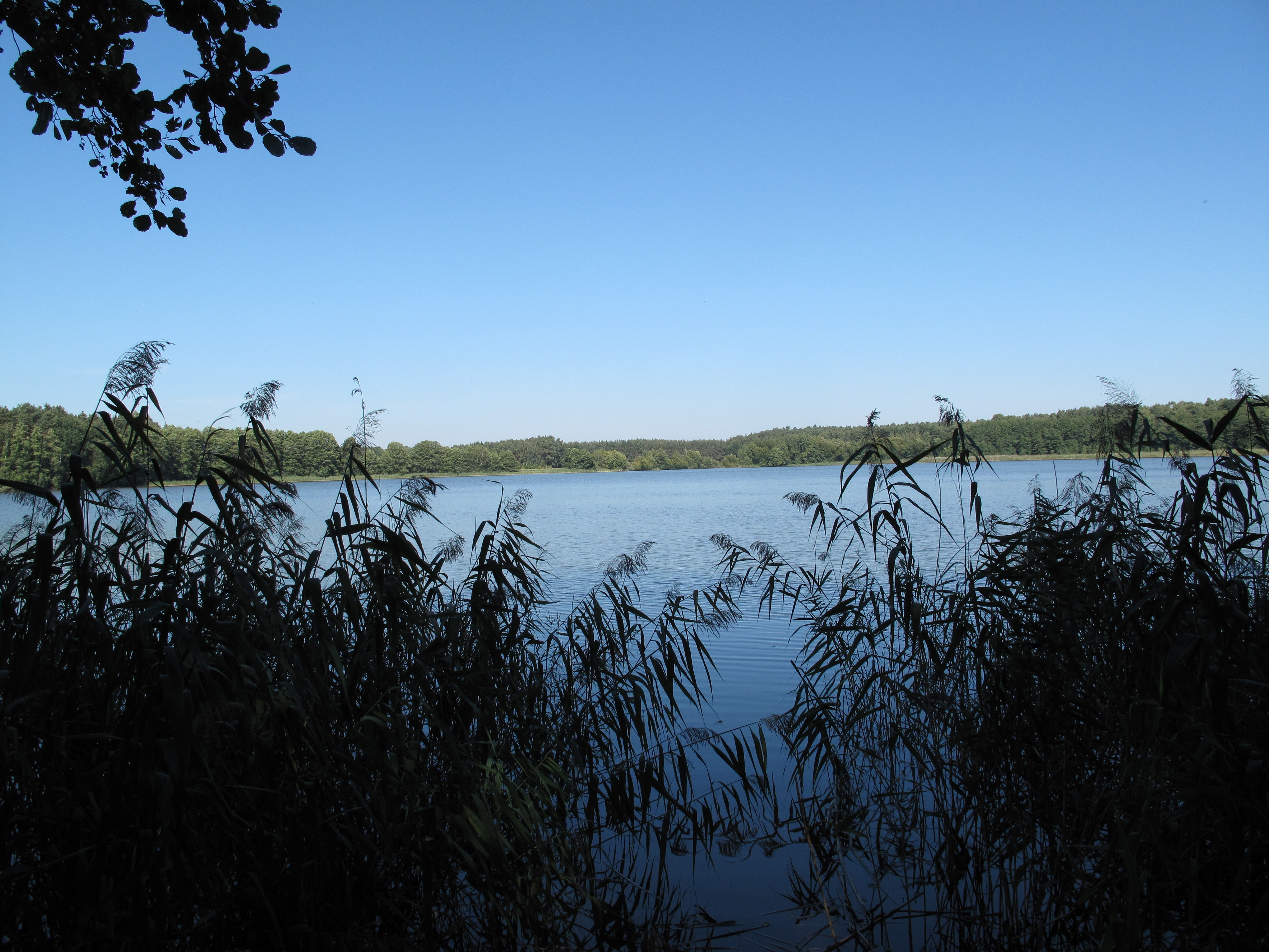 The Lebbiner See is a lake in the town Storkow, District Oder-Spree, Brandenburg, Germany. Parts of the shore area belong to the eponymous village Lebbin, a part of Markgrafpieske, municipality Spreenhagen. The lake covers 28 hectare and has a depth of max. 4 meters. It is situated in the Dahme-Heideseen Nature Park.